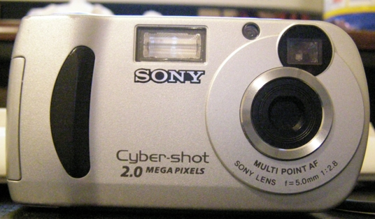 Sony Sony Cyber-shot DSC-P31 front view.